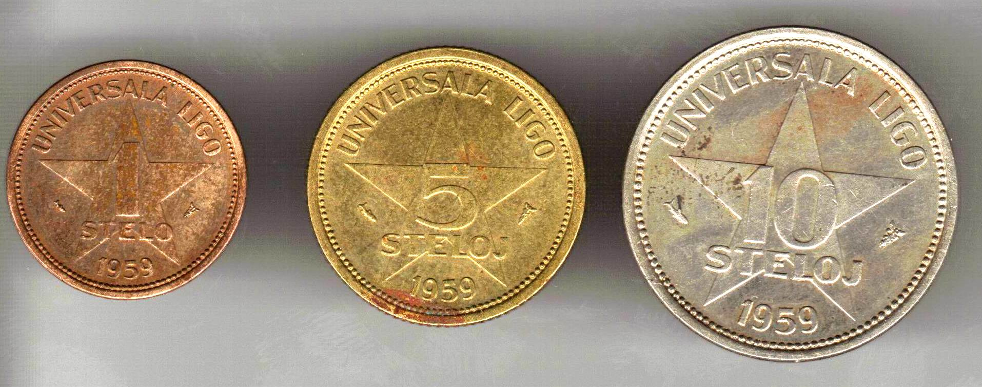 1 5 10 Stelo coins (tails)